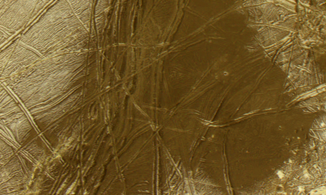 Assembled from red, green, and violet filtered images. NASA/JPL-Caltech/Kevin M. Gill